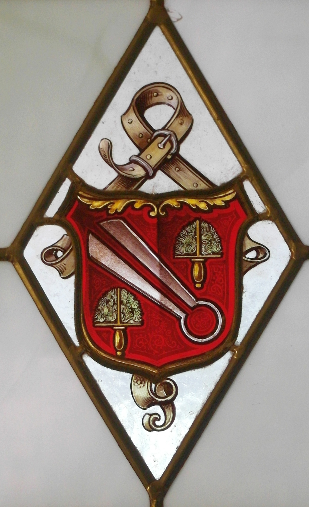 Stained glass window with the cloth worker's guild signs